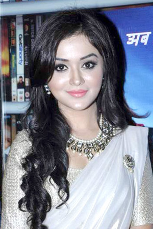 Ragini Nandwani at the special screening of Dehraadun Diary